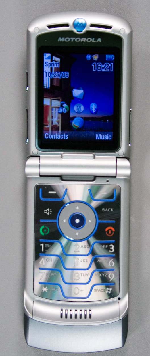 Front clamshell-open view of the Motorola RAZR V3m, Sprint edition.